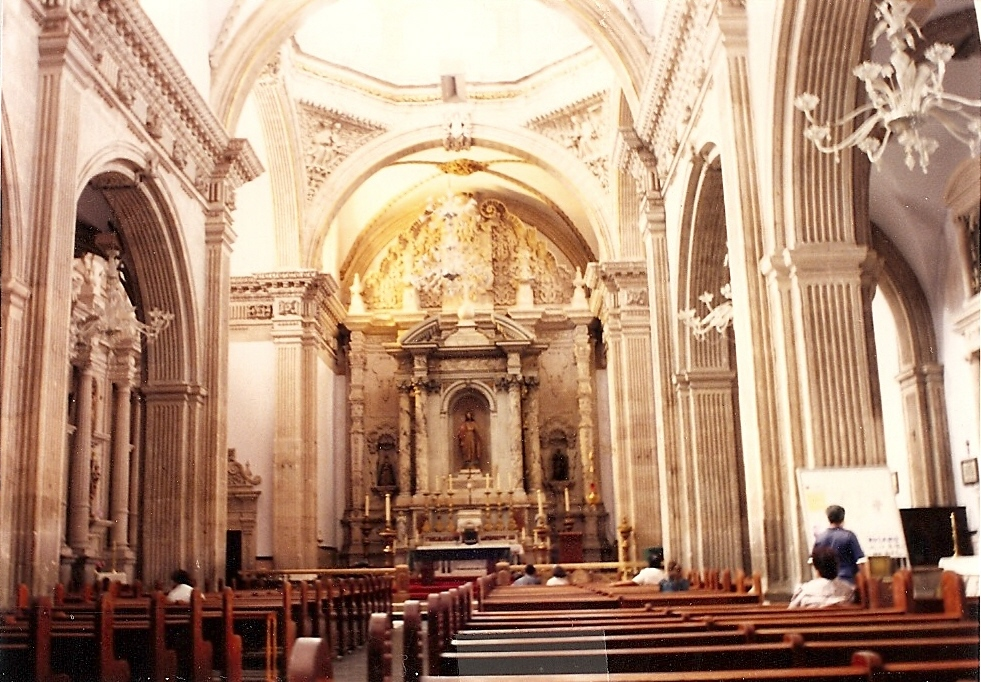 Interior of Cathedral of Chihuahua, Mexico